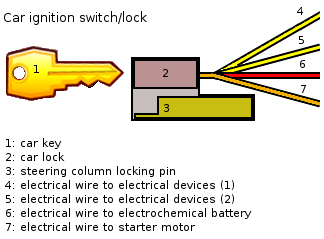 A schematic showing the ignition/steering wheel lock of a car. Note that the 4 wires are not connected from a single wire, they are seperate (the schematic was made how it is because I wished to clarify that they run next to each other, rather than under each other, when viewed from the side). Note that 4 is generally connected to the largest power consumers (ie main lights, rear window heater, windscreen wipers, cigarette lighter, ...), 5 generally connects to smaller power consumers. Note also that most car ignition/steering wheel locks also have 4 modes: In mode 0: main engine is off (or is stopped if the engine was already on), 4, 5 & 7 are not connected to 6 In mode 1: 4 is connected to 6 In mode 2: 4 and 5 are connected to 6 In mode 3: 4, 5 and 7 are connected to 6; note that this 3rd mode is springed, meaning that the key will spring back to mode 2 upon release of the key. This is because the powering of the starting engine is no longer wanted once the main (internal combustion) engine has kicked on. The schematic was made based on the image and by following a schematic from the book "Zo werkt uw auto" by Rien Tholenaar and Carel Zaal